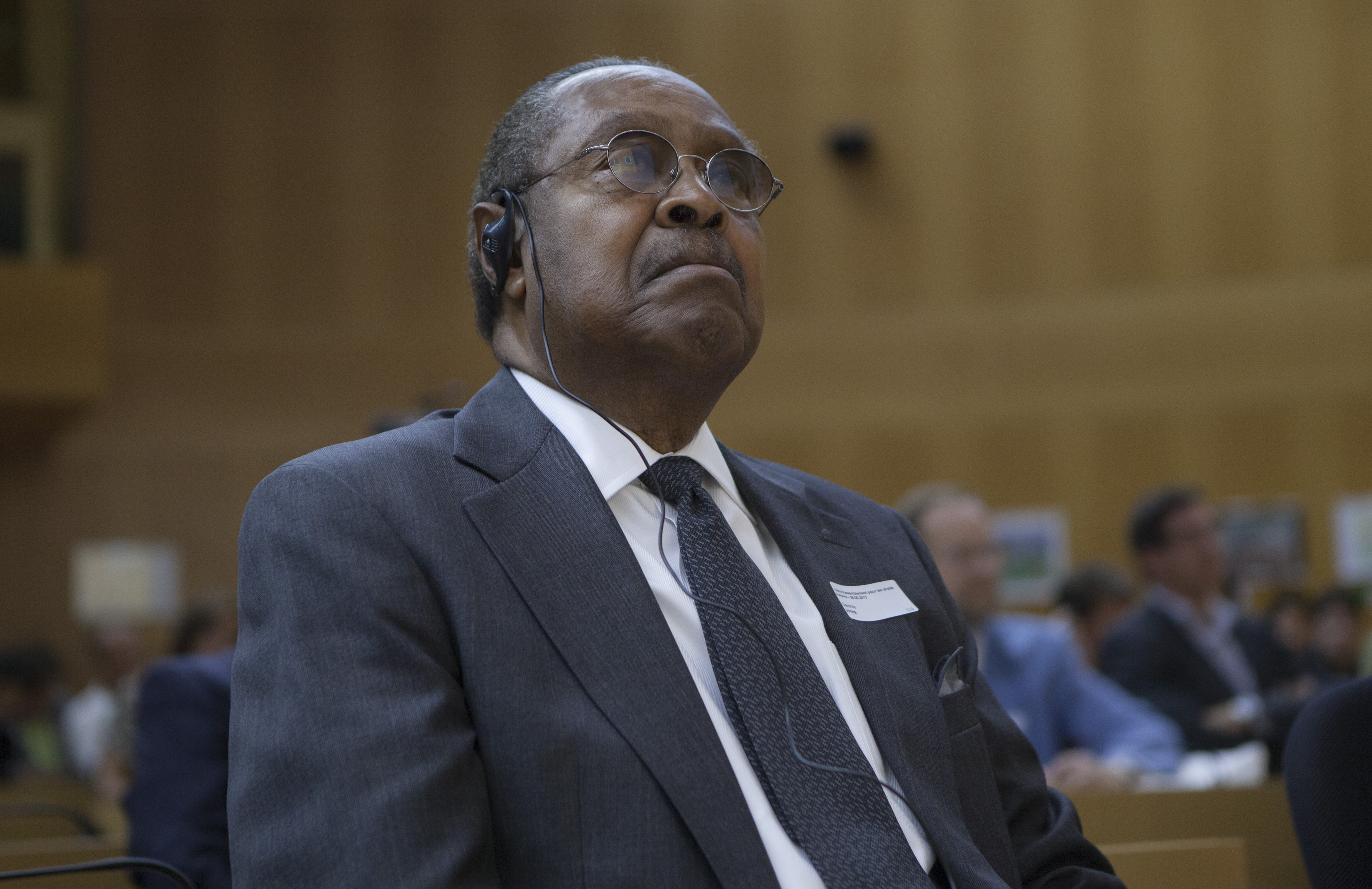 Clarence B. Jones at the Commemoration of the 50th Anniversary of the "I Have a Dream" speech organized by the Canton of Geneva and The Graduate Institute of Geneva with the support of the U.S. Mission and the Pictet Foundation, August 26, 2013 at the WMO offices in Geneva. The keynote speaker was Dr. Clarence B. Jones, political advisor, counselor and draft speechwriter for the Reverend Martin Luther King Jr.